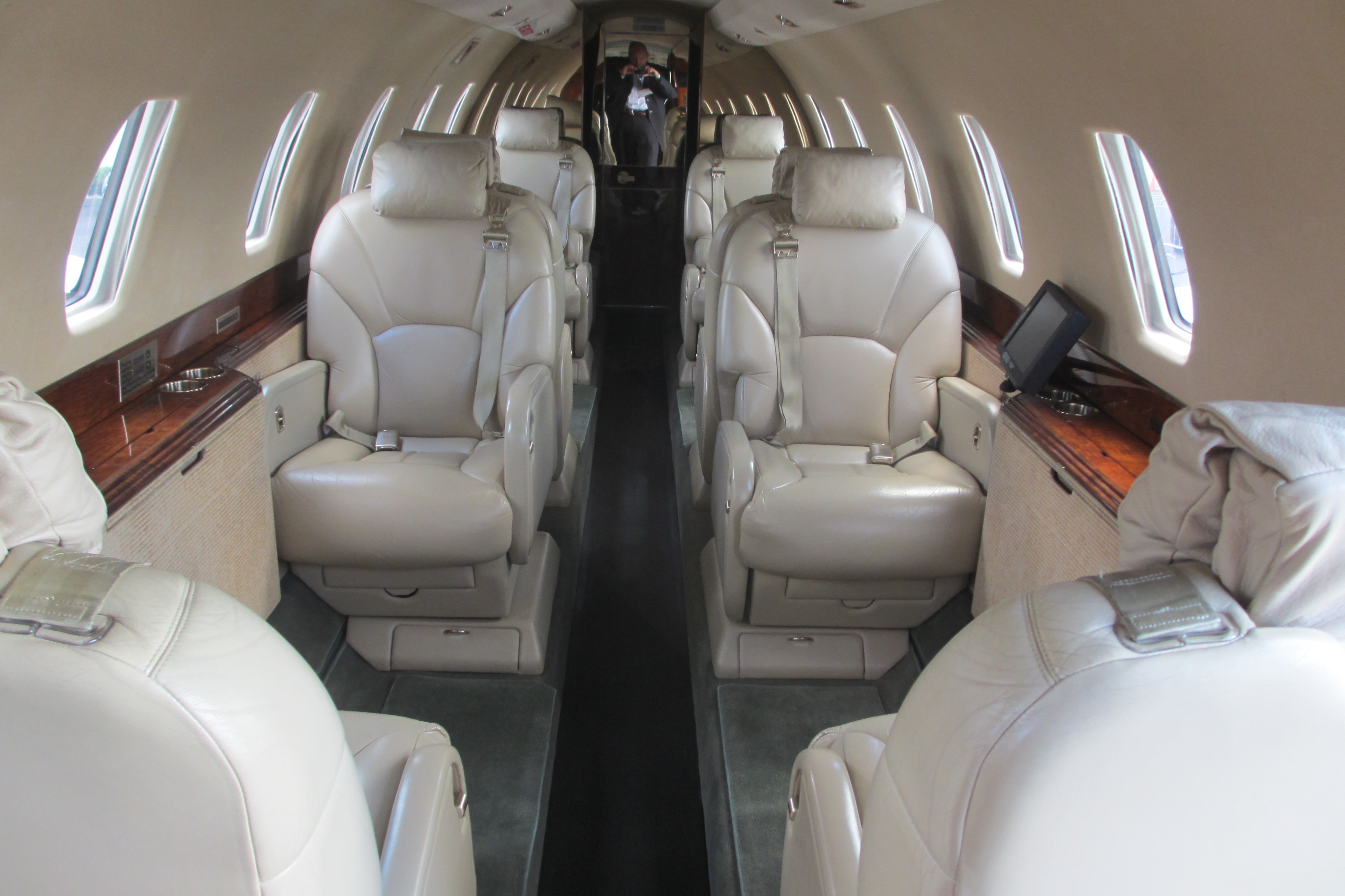 Cessna Citation X cabin interior aft view.